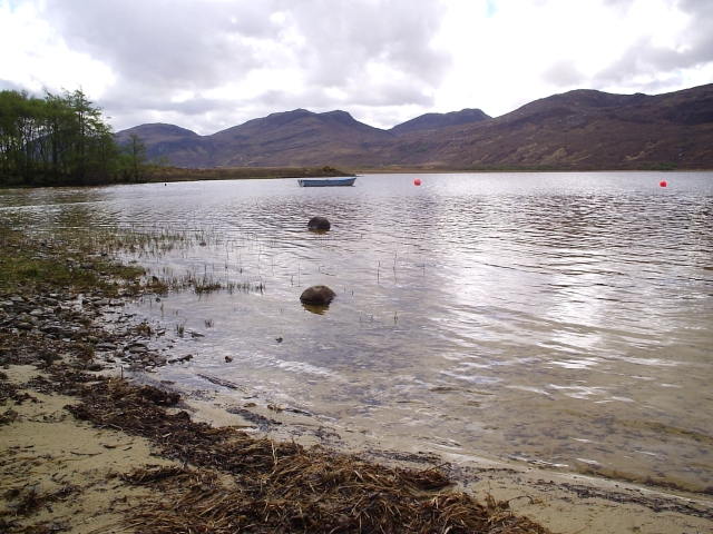 Loch Hope. Beside the Road to Hope, where at this point you start to wonder if there is any hope of you ever reaching Hope.